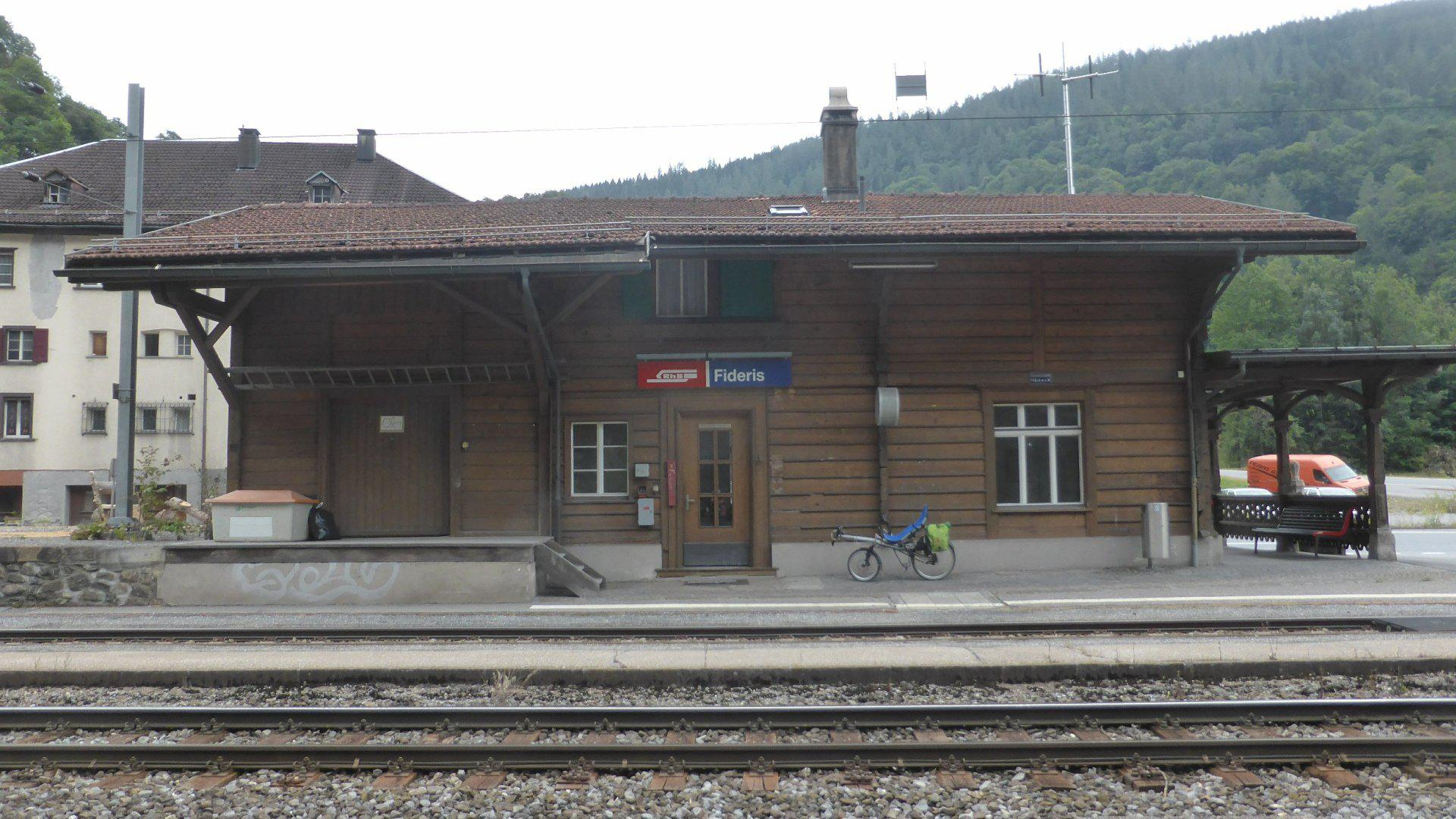 Fideris railway station in Fideris, Switzerland.